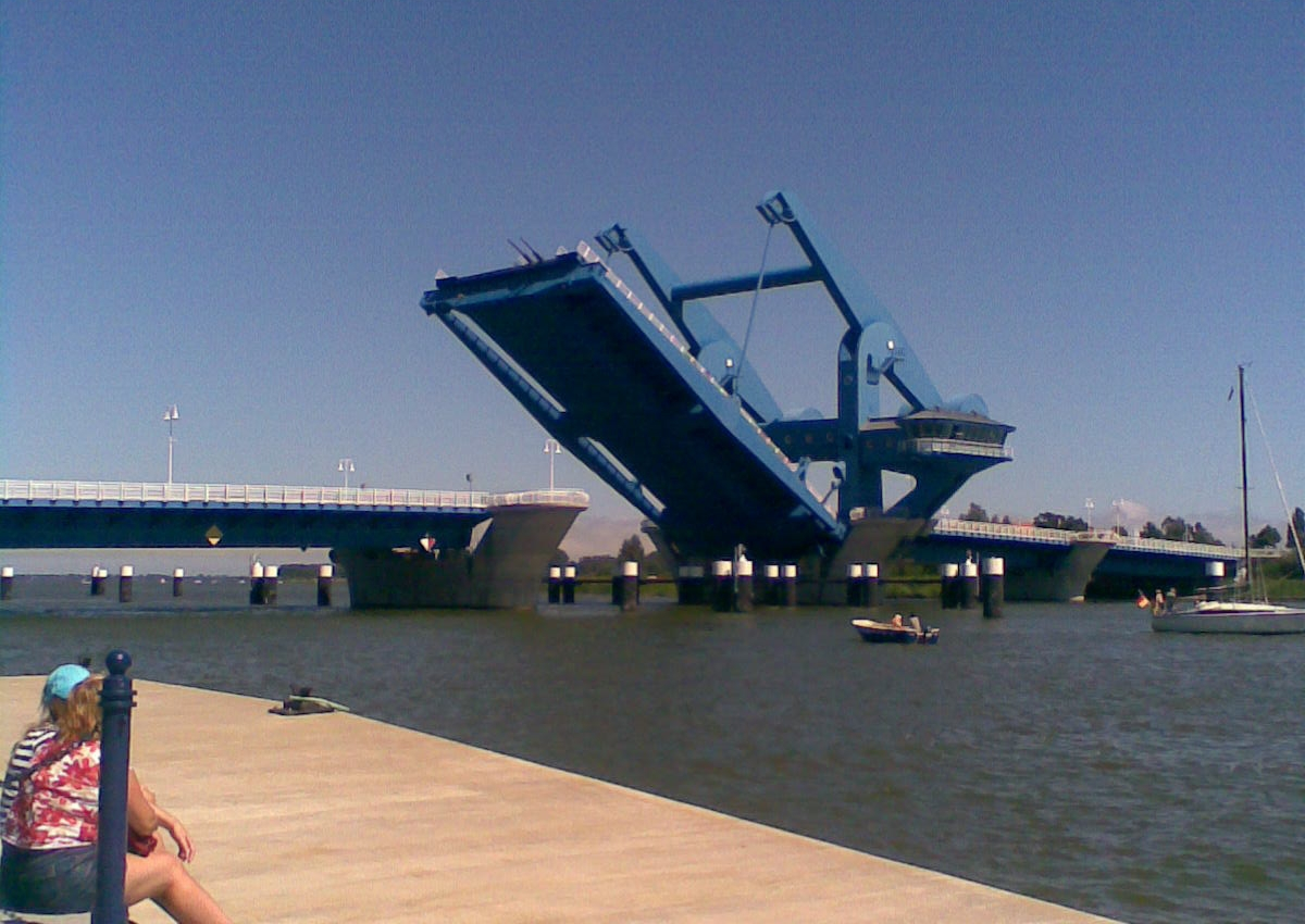 The Peenebrücke Wolgast (Germany), opened to let tall ships pass through the Peenestrom.